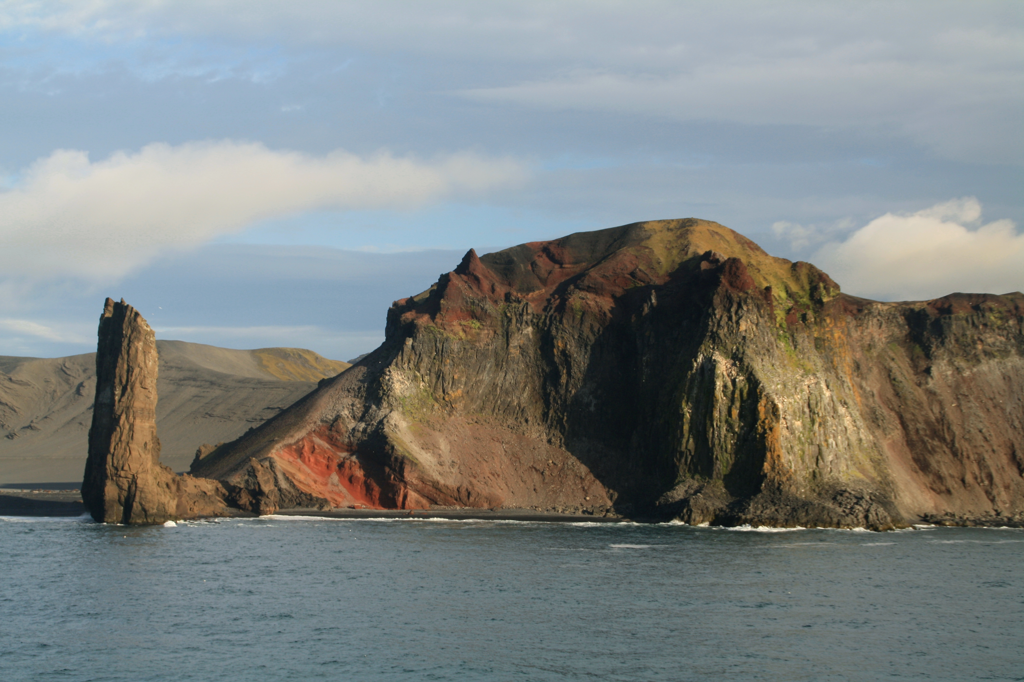 Brielle Tower on Island Jan Mayen